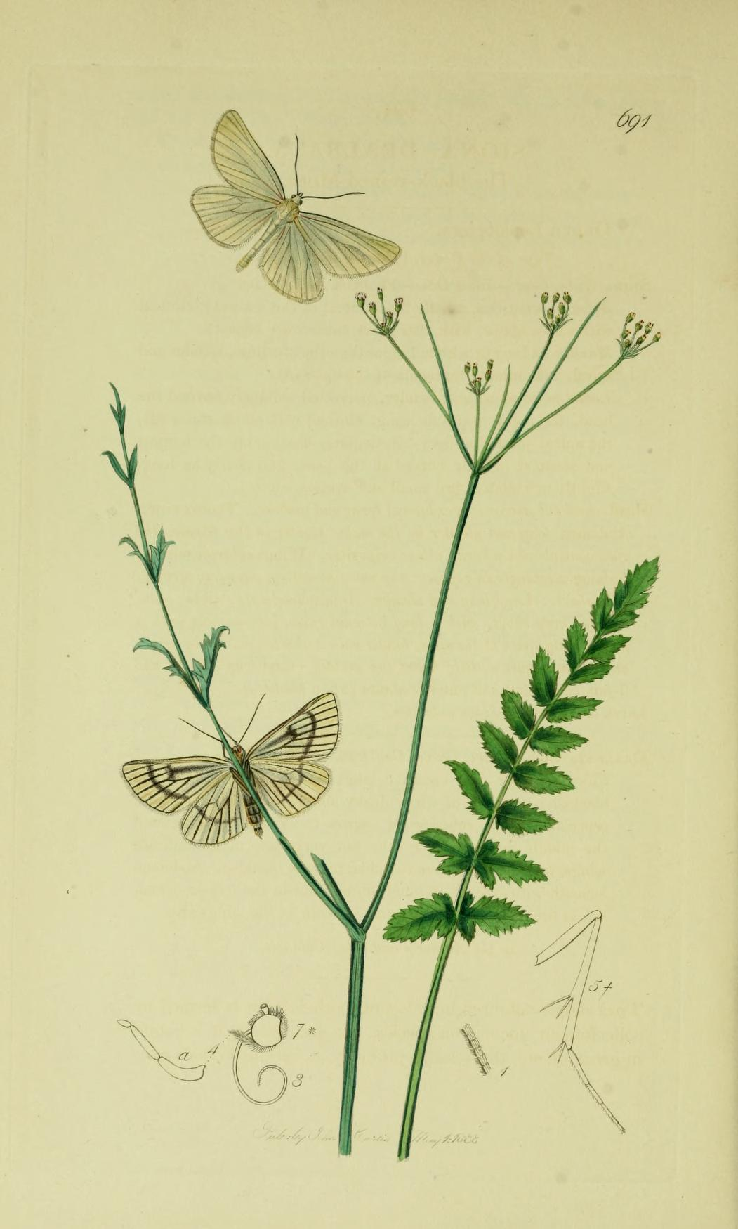 An illustration from British Entomology by John Curtis. Lepidoptera: Siona dealbata or Siona lineata (Black-veined Moth).